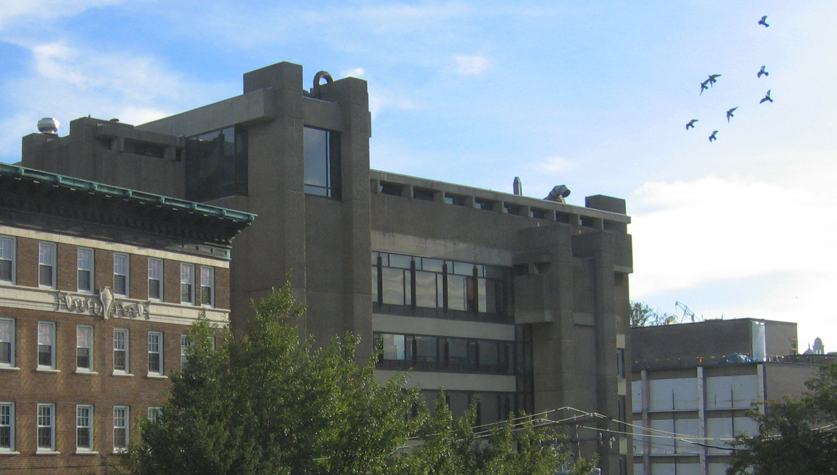 Yale Art and Architecture Building, New Haven, Connecticut, viewed from the rooftop of an adjacent building.